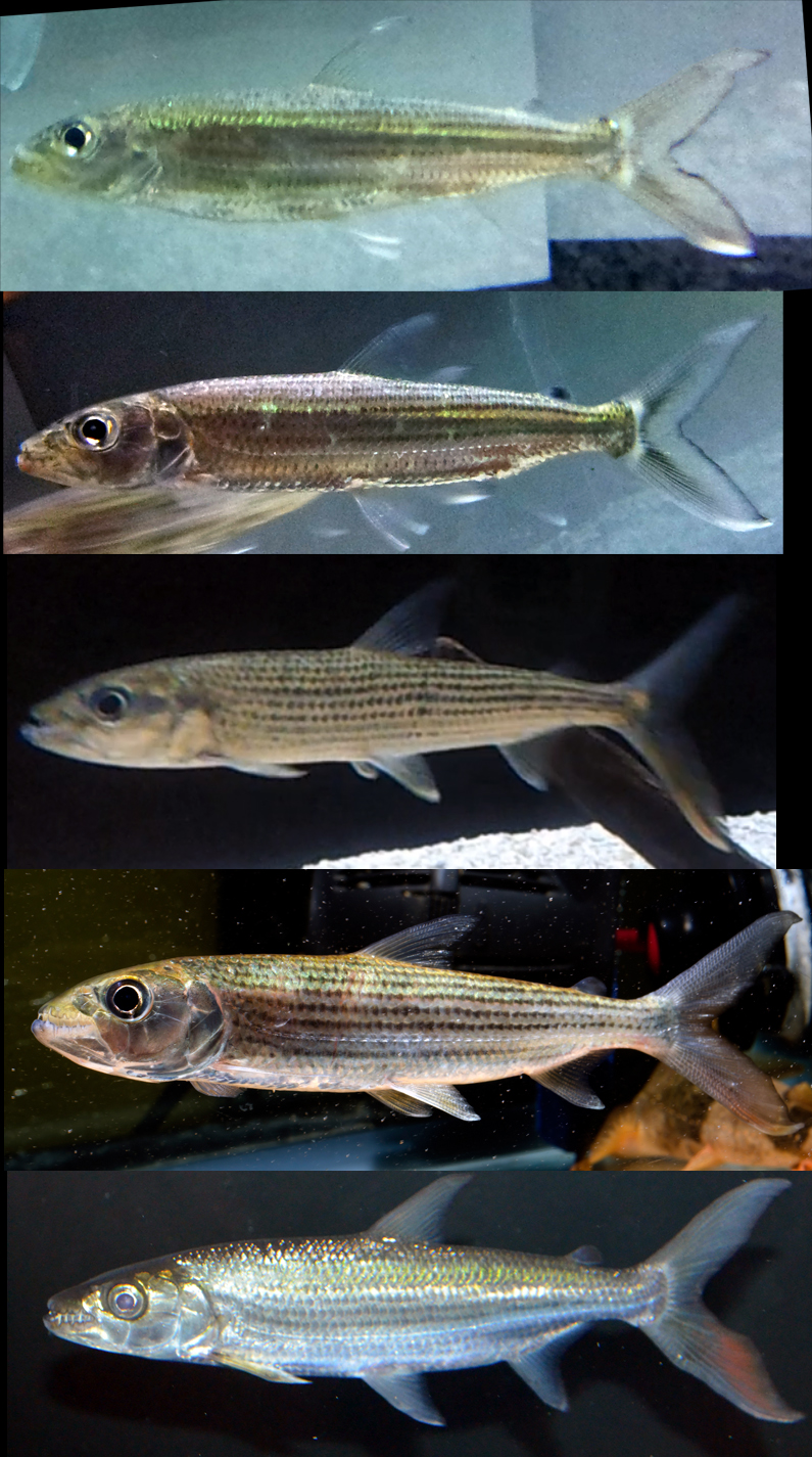 All five currently recognized species of Hydrocynus compared. I recognize that this isn't the best quality image, but unfortunately my photography skills and my involvement in the aquarium community didn't develop at the same time. In spite of the quality of some of the images that I've had to use here, I feel that this image is unique and could potentially contribute to the site. The fish pictured are as follow (top photo to bottom): Hydrocynus vittatus, Hydrocynus tanzaniae, Hydrocynus forskahlii, Hydrocynus brevis, and Hydrocynus goliath. All fish pictured here were between five and six inches (13-15 cm) in length.